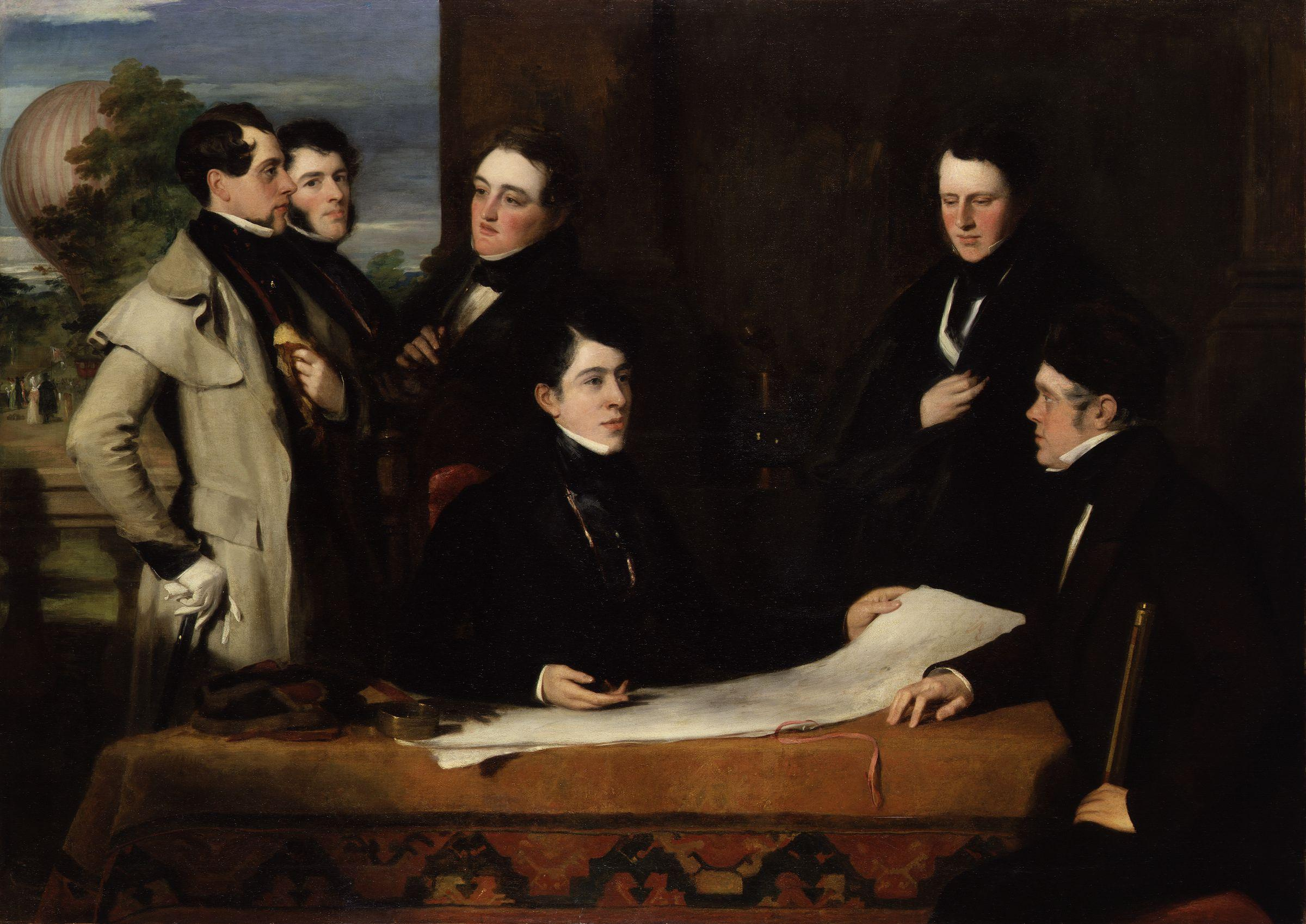 A Consultation prior to the Aerial Voyage to Weilburgh, 1836, by John Hollins (died 1855). William Milbourne James (judge) is in the picture All images in this batch have been confirmed as author died before 1939 according to the official death date listed by the NPG.